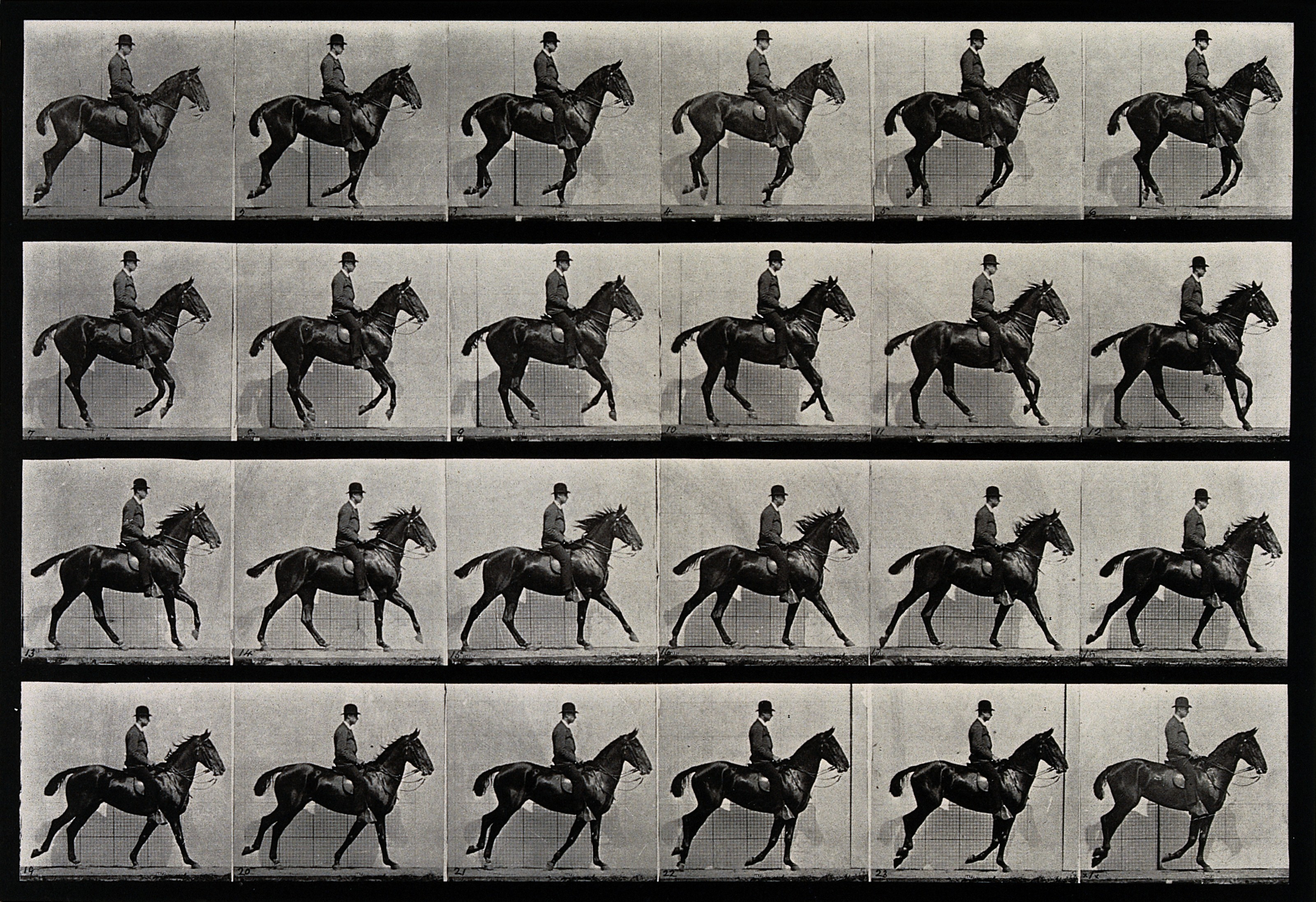 A cantering horse and rider. Photogravure after Eadweard Muybridge, 1887. Iconographic Collections Keywords: Riding; Horse; University of Pennsylvania.; Eadweard Muybridge